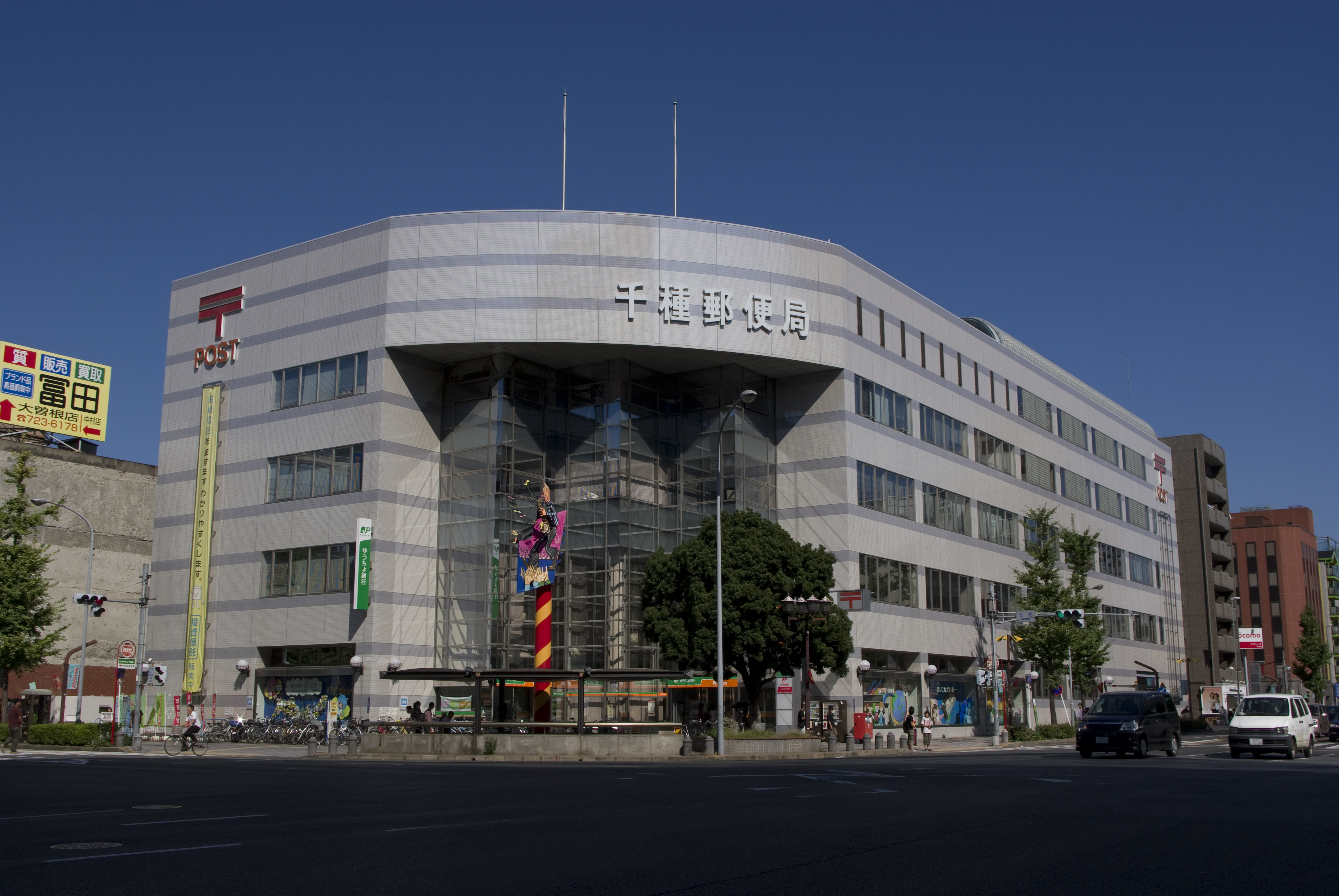 Chikusa Post Office in Chikusa-ku, Nagoya, Japan